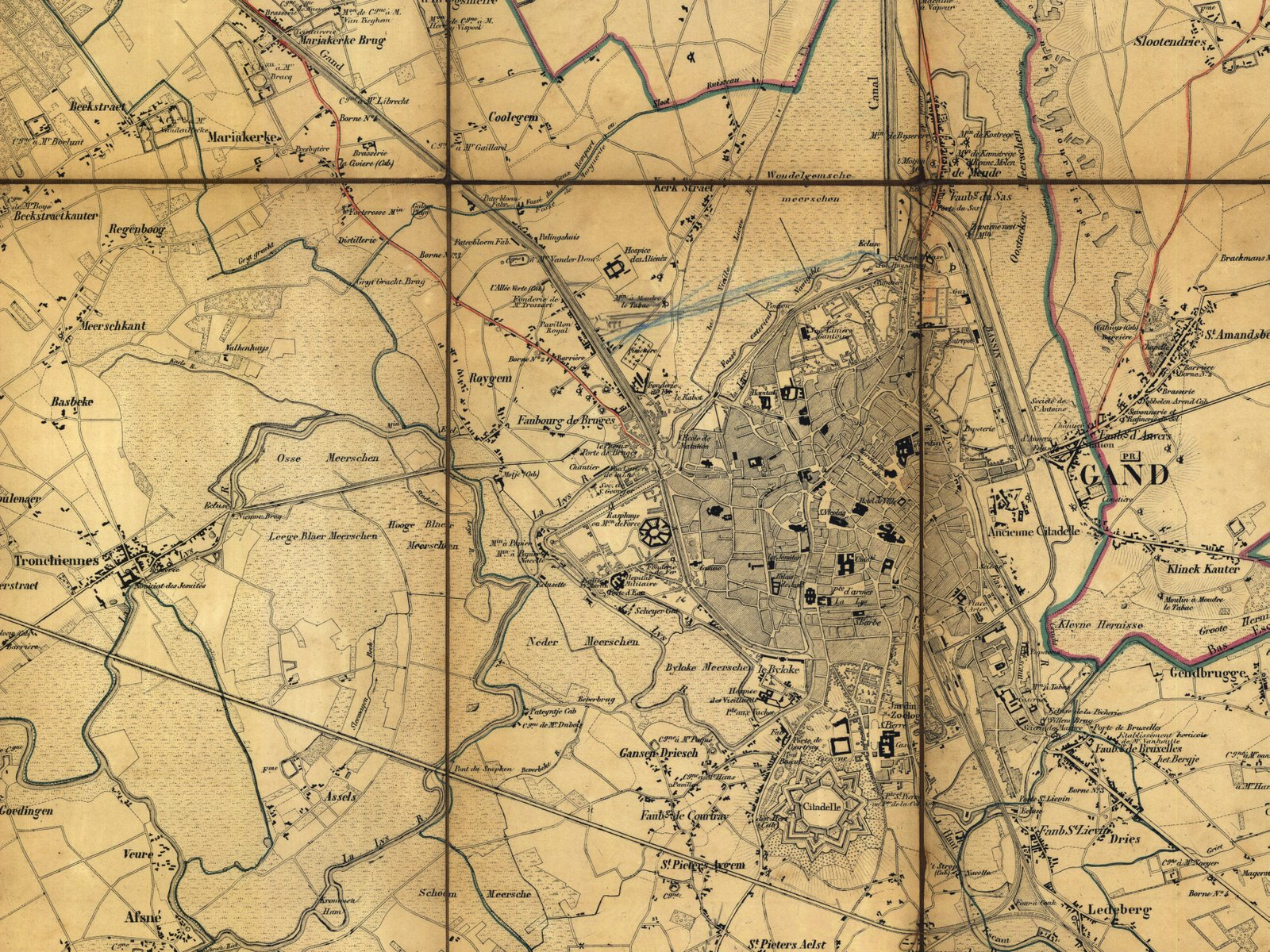 Ghent, Map 1856